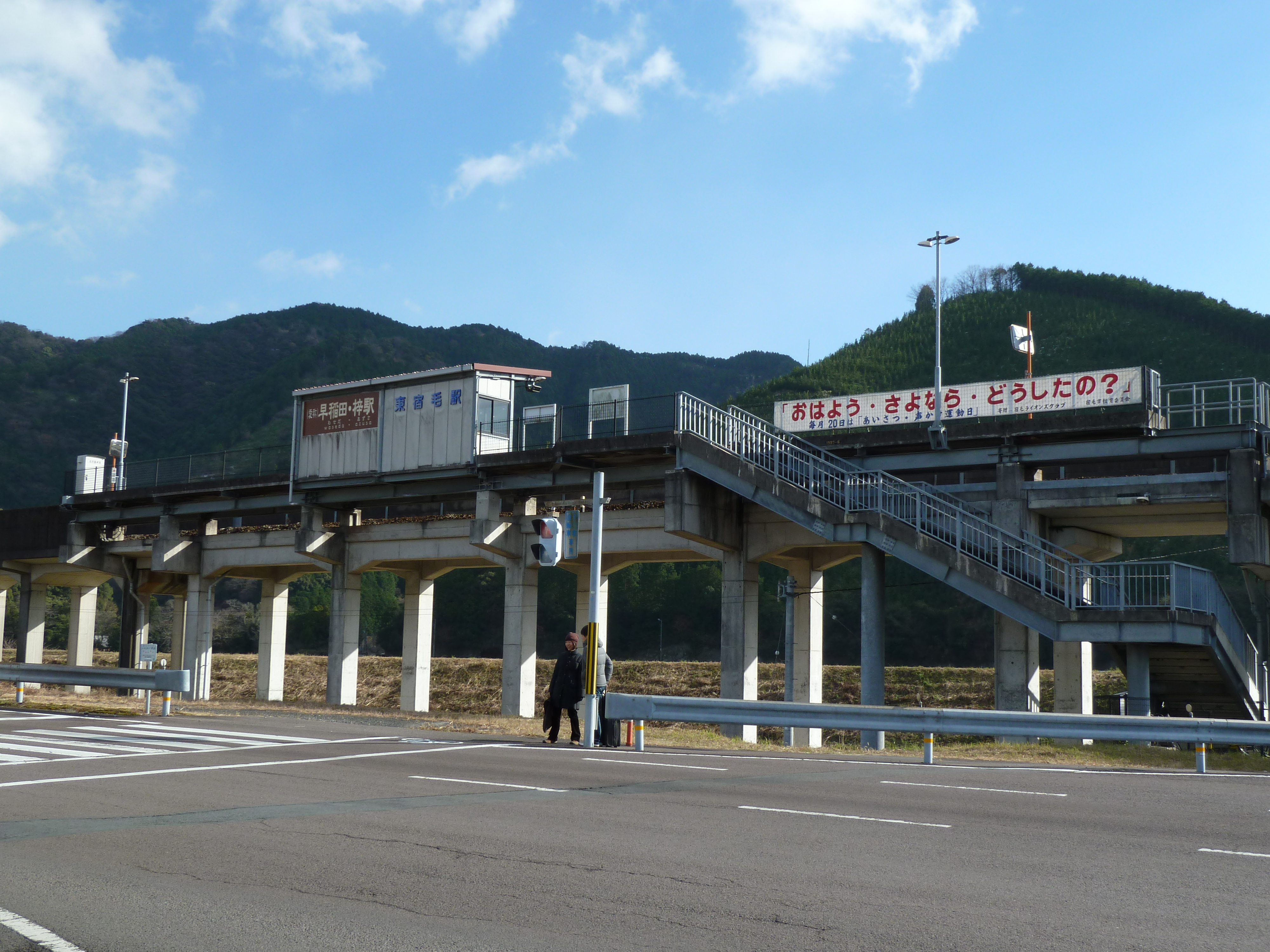 東宿毛駅